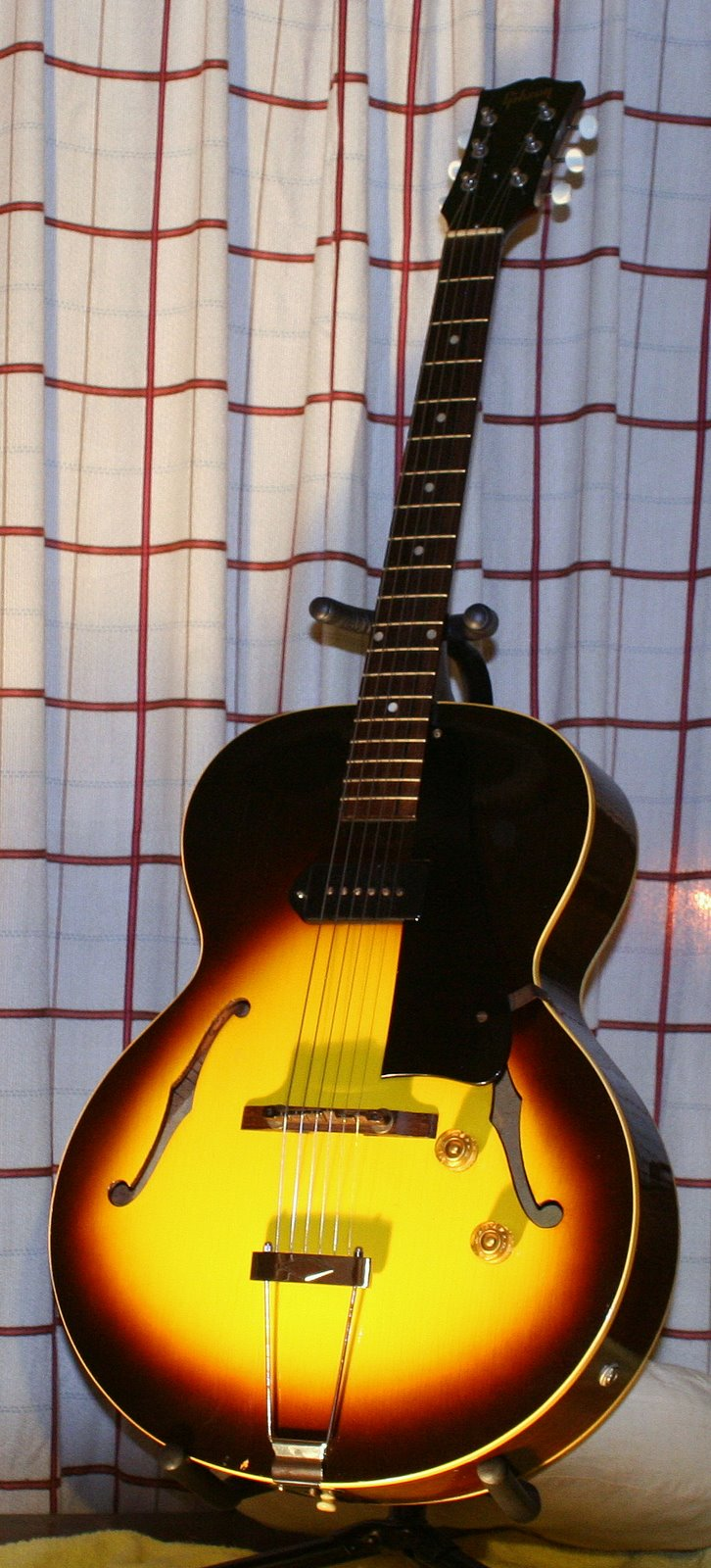 GIBSON ES-125 1955 Available: 1941 to 1970 (a student model at best). ES-125 specs: 16 1/4" wide, approximately 3.5" thick body, P-90 pickup with "dog ears" with adjustable poles. pickup in neck position, tortoise grain pickguard, plain tailpiece, single bound top and back, dot fingerboard inlays, silkscreen logo, sunburst finish.